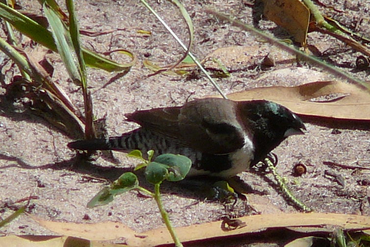 Bronze Mannikin